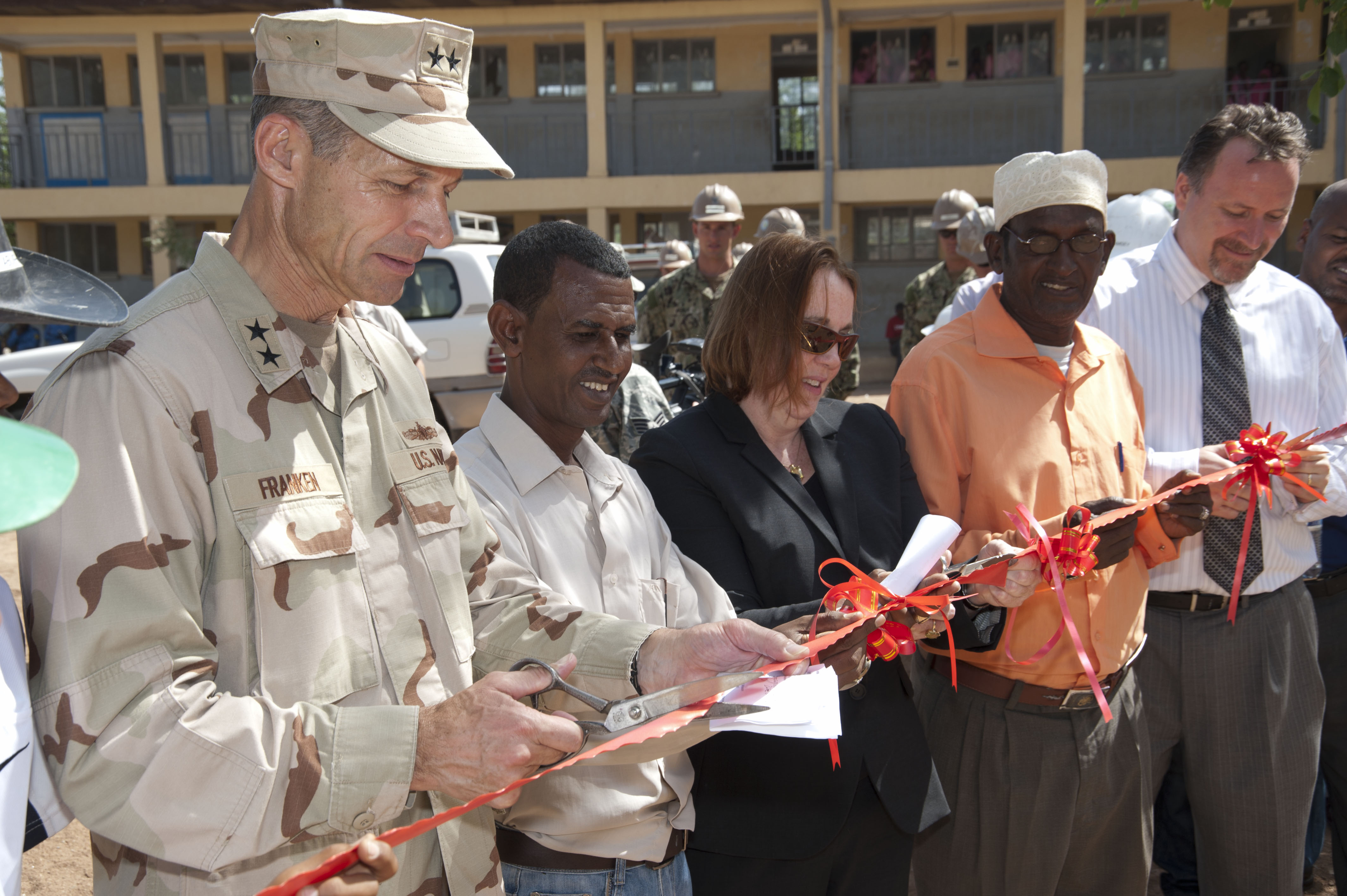 DIRE DAWA, Ethiopia (May 22, 2012) Rear Admiral Michael Franken, left, commander of Combined Joint Task Force Horn of Africa, Kumsa Baysa, principal of Gende Gerada Primary School, Molly Phee, deputy chief of mission at the U.S. Embassy in Ethiopia, Egei Wabere, an Gende Gerada Kebele education coordinator, and Stephen Fitzpatrick, program coordinator for U.S. Agency for International Development gather for a school building dedication and ribbon cutting ceremony for a new school house and two latrines at the Gende Gerada Primary School. (U.S. Air Force photo by Tech. Sgt. Ryan Labadens/Released) Join the conversation navylive.dodlive.mil